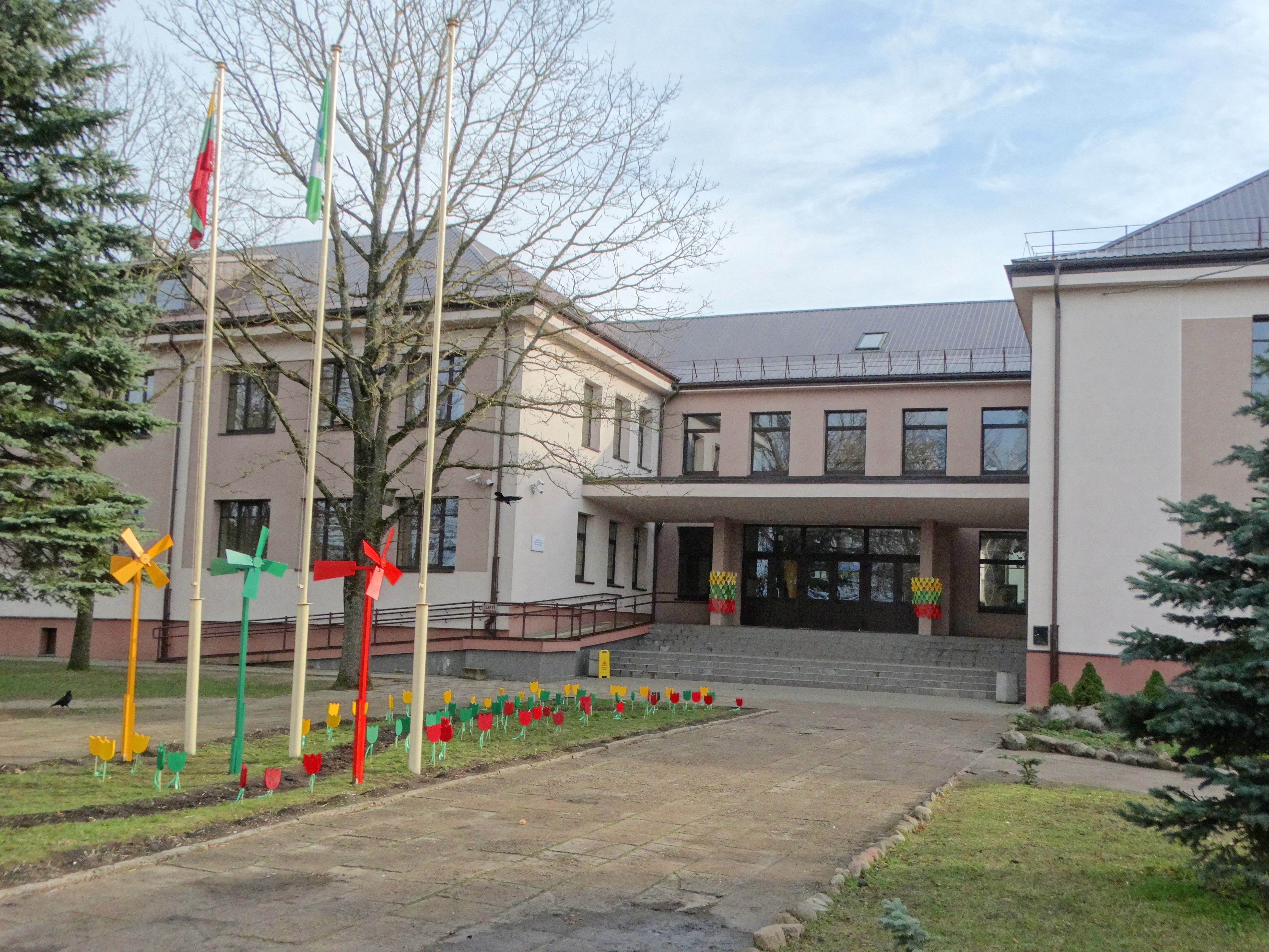 Progymnasium of Marijonas Daujotas, Kretinga, Lithuania